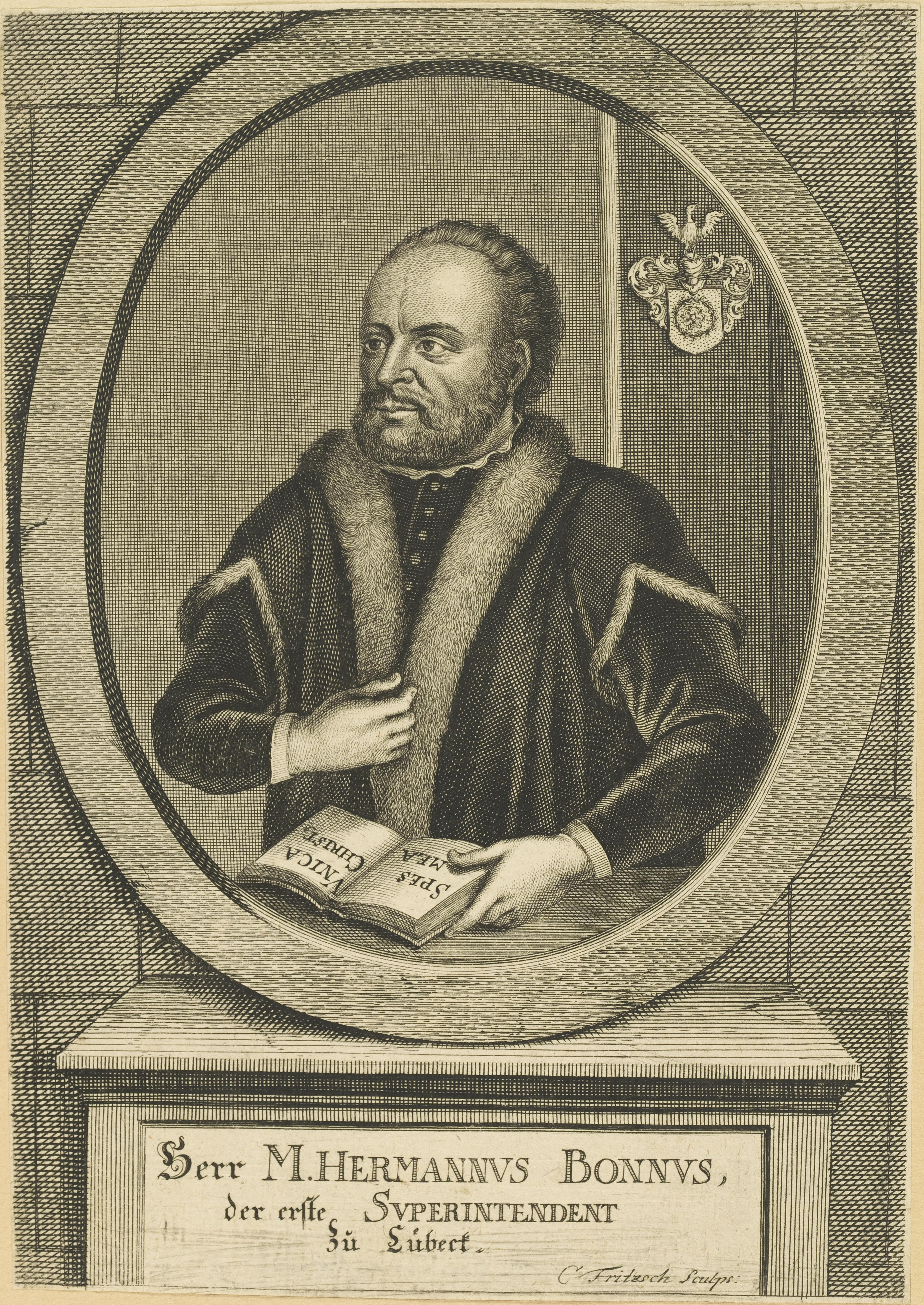 Depicted person: Hermann Bonnus